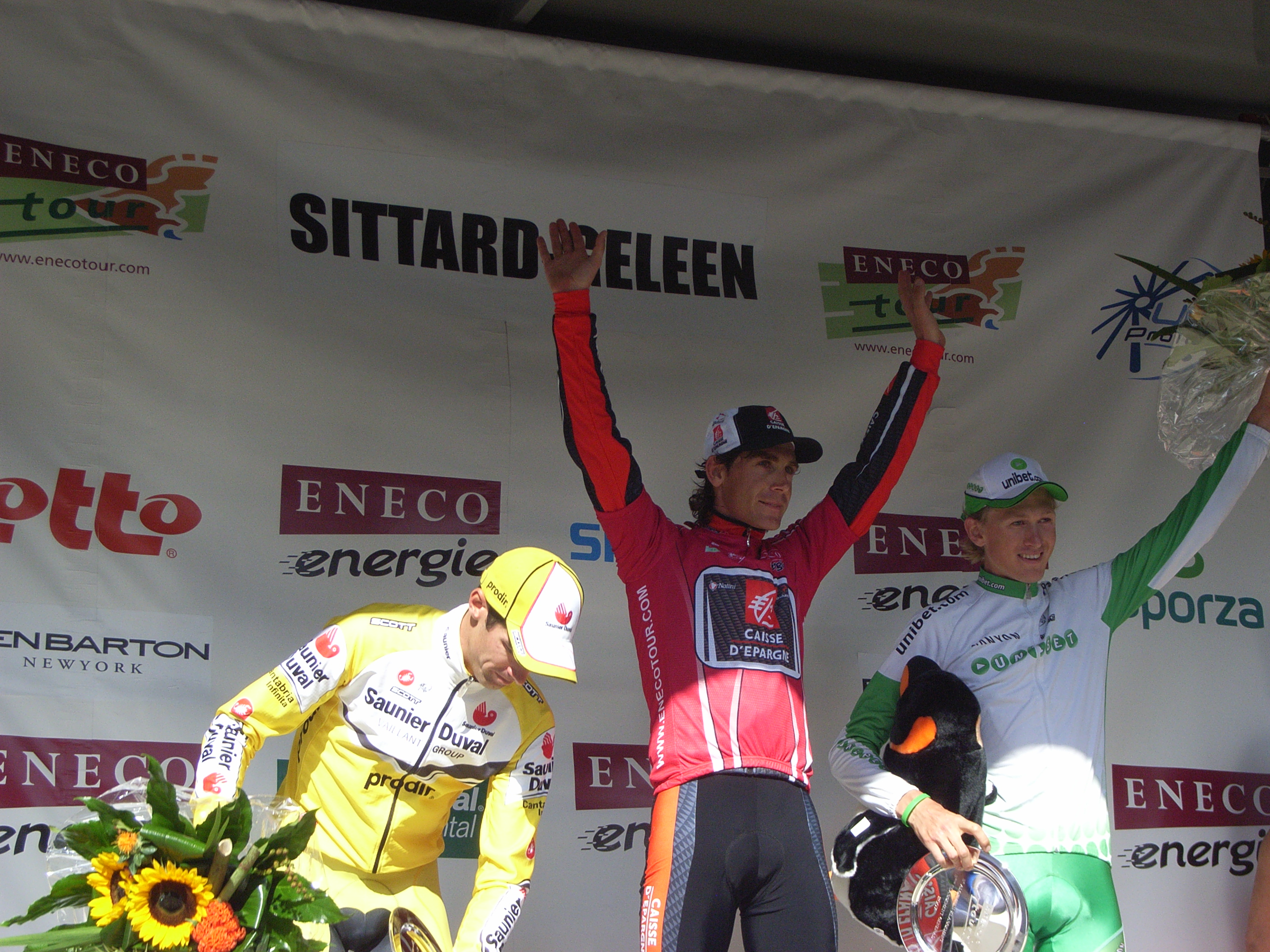 José Ivan Gutierrez wins the Eneco Tour 2007